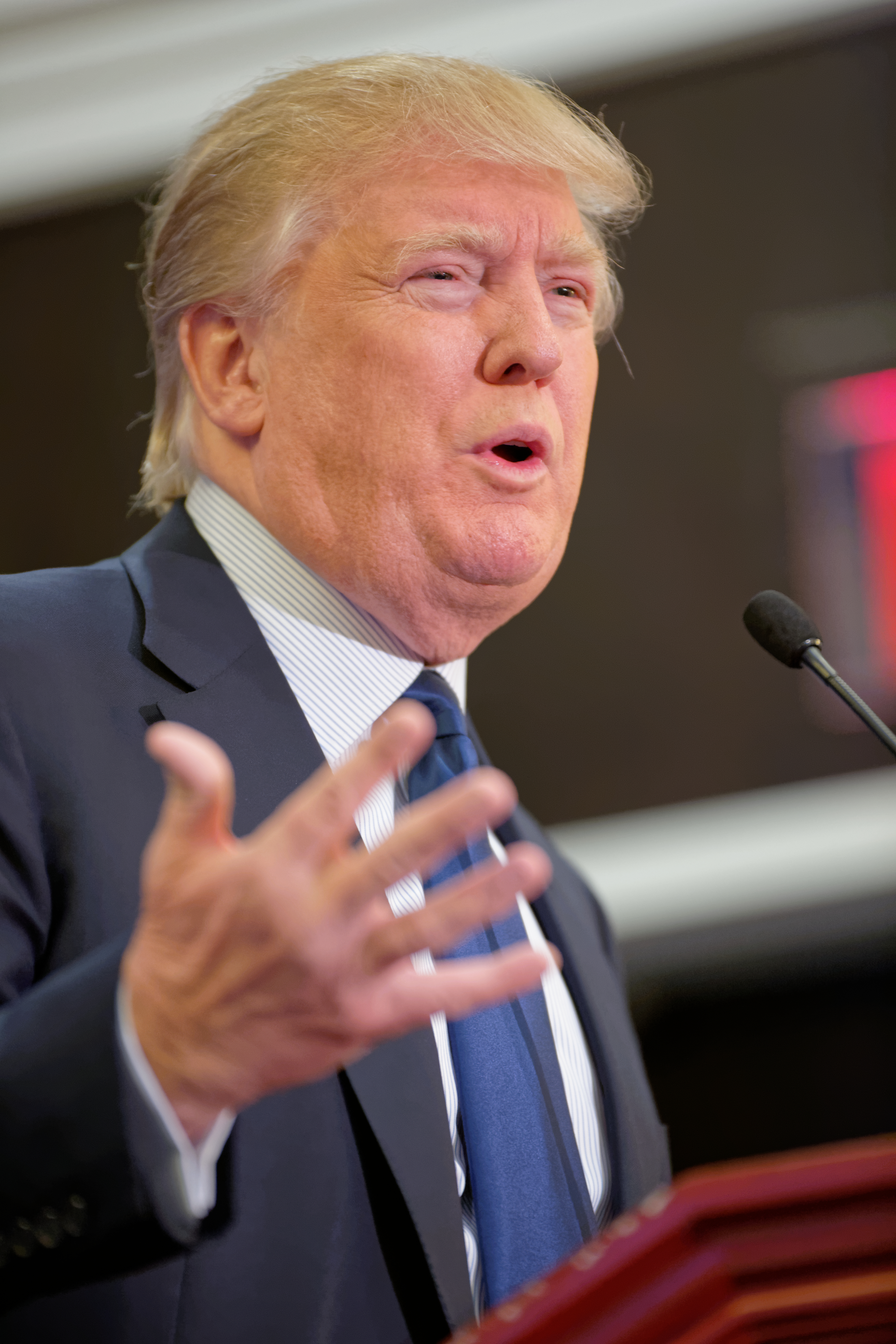 Donald John Trump Sr. (born June 14, 1946) is an American businessman, investor, television personality and author. He is the chairman and president of The Trump Organization and the founder of Trump Entertainment Resorts. Trump's extravagant lifestyle, outspoken manner, and role on the NBC reality show The Apprentice have made him a well-known celebrity who was No. 17 on the 2011 Forbes Celebrity 100 list. Trump is the son of Fred Trump, a wealthy New York City real-estate developer. He worked for his father's firm, Elizabeth Trump & Son, while attending the Wharton School of the University of Pennsylvania, and in 1968 officially joined the company. He was given control of the company in 1971 and renamed it The Trump Organization. In 2010, Trump expressed an interest in becoming a candidate for President of the United States in the 2012 election, though in May 2011, he announced he would not run. Trump was a featured speaker at the 2013 Conservative Political Action Conference (CPAC). In 2013, Trump spent over $1 million to research a possible run for president of the United States in 2016.